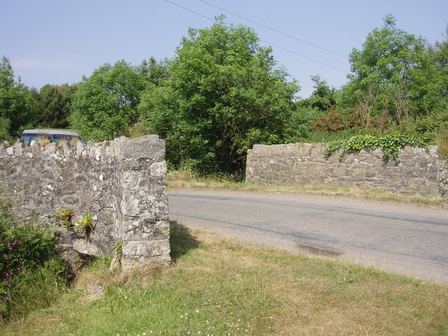 Bridge at Calloose.